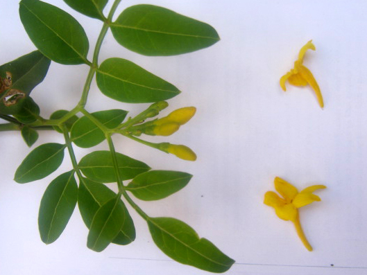 Jasminum humile flower found in Kathmandu in June